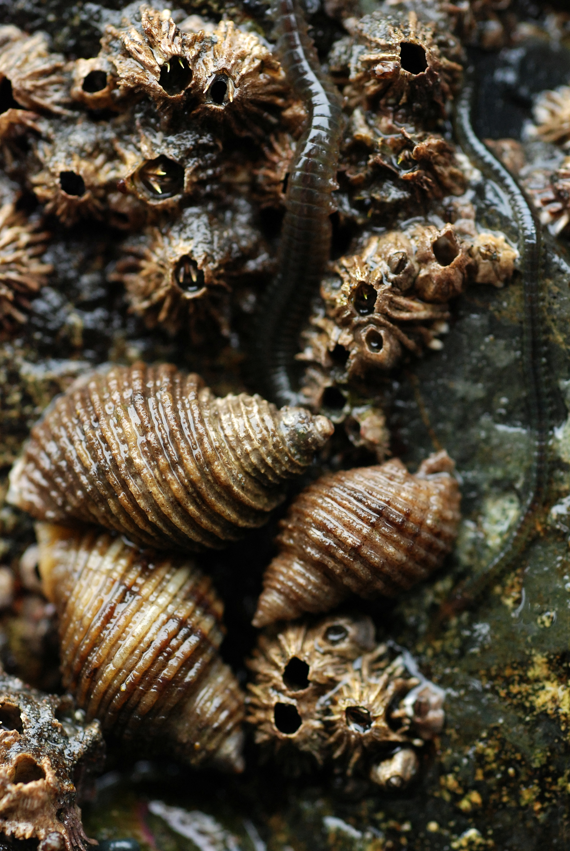 Channelled dogwinkles (Nucella canaliculata), thatched barnacles (Semibalanus cariosus), and pile worms (Nereis vexillosa)